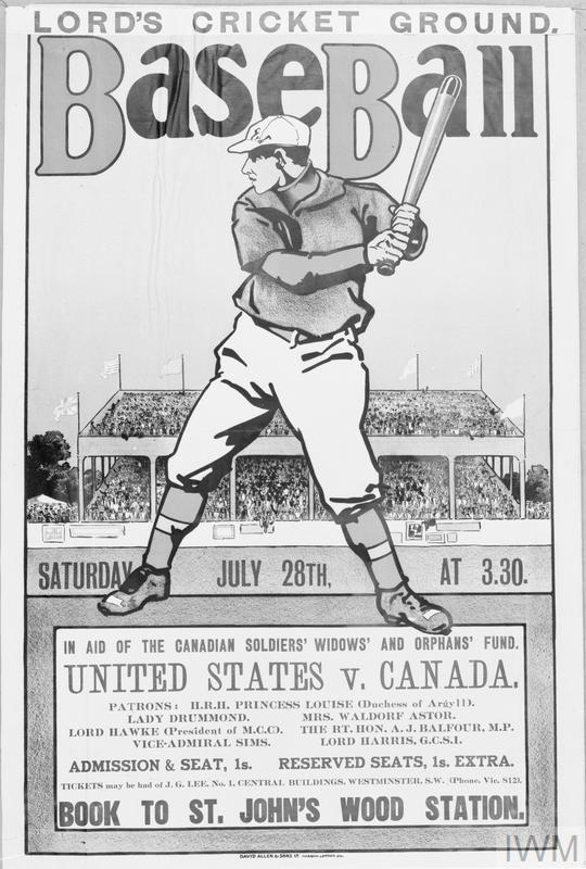 Baseball